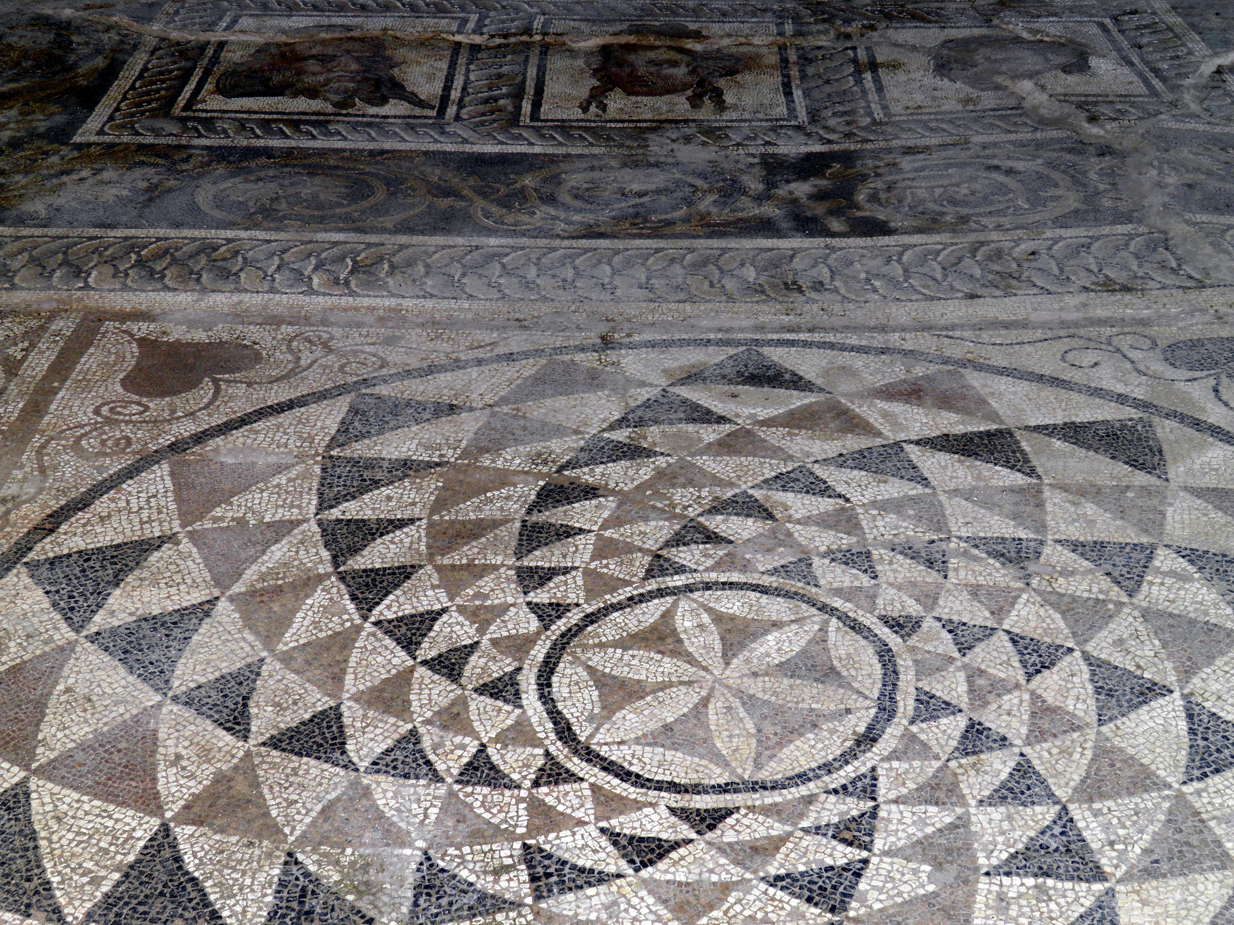 The mosaic of the banquet room in the Villa of Dionysos, Ancient Dion